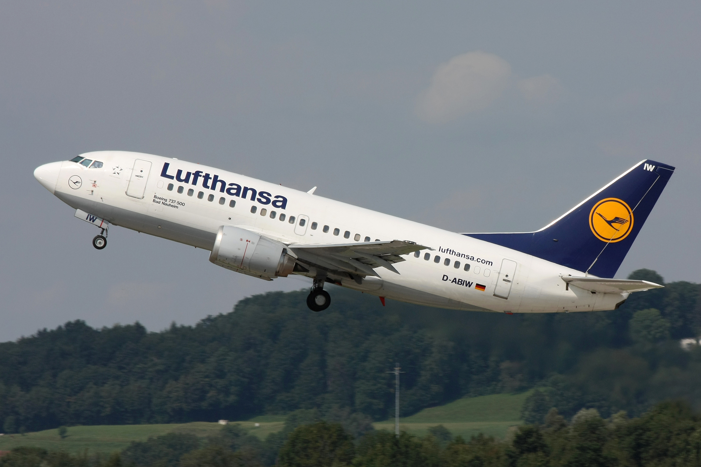 A Lufthansa Boeing 737-500 takes off at Zurich Airport.